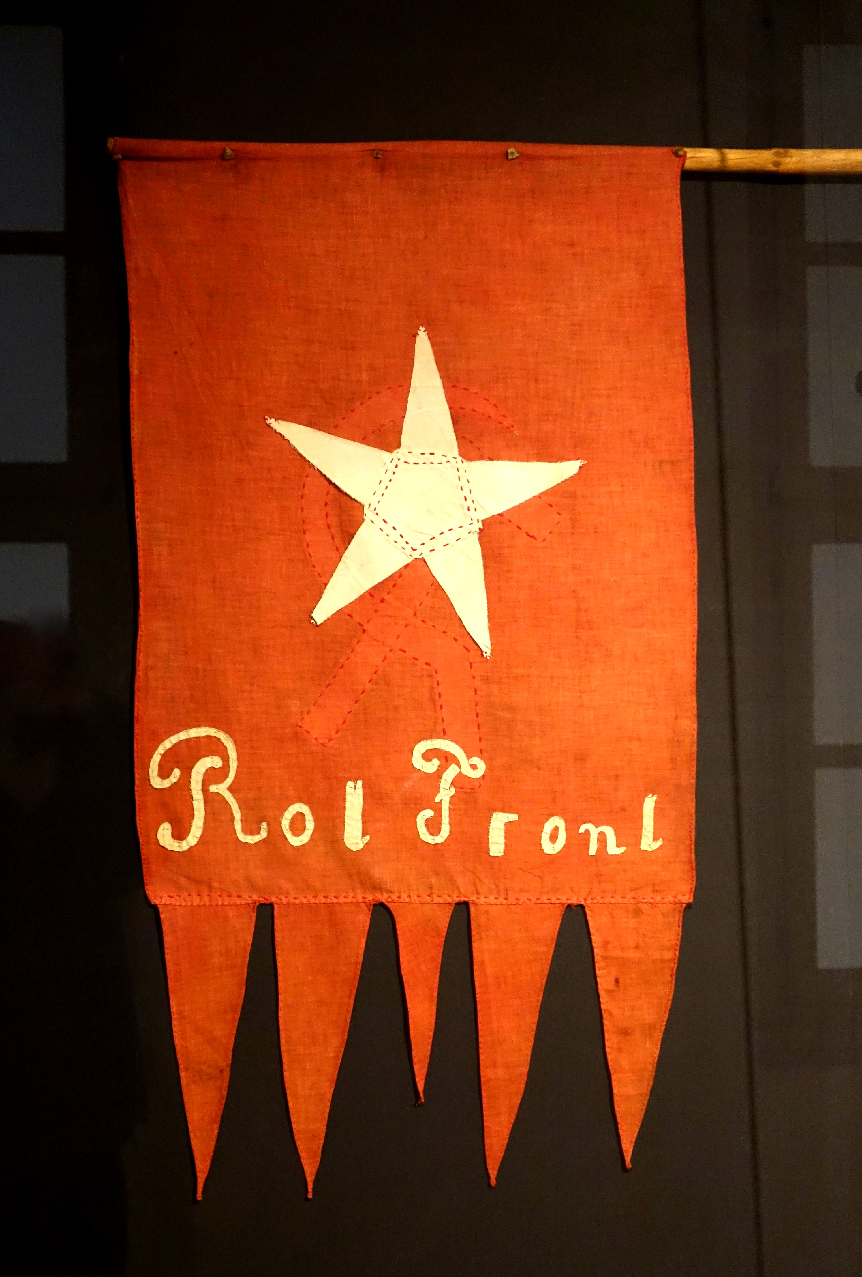 Exhibit in the Braunschweigisches Landesmuseum, Braunschweig, Germany. This work is in the public domain because the creator(s) died more than 70 years ago.